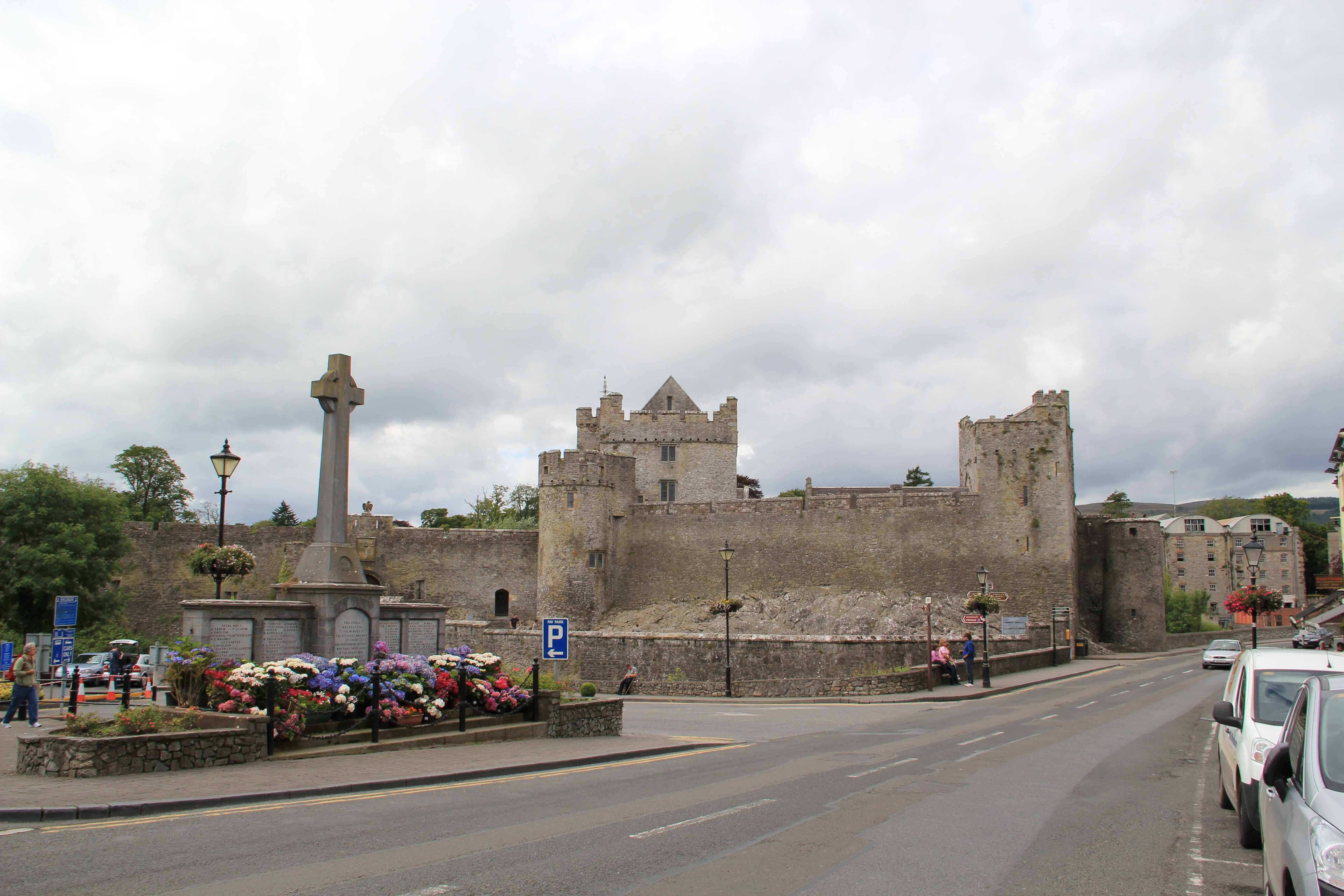 Cahir Castle